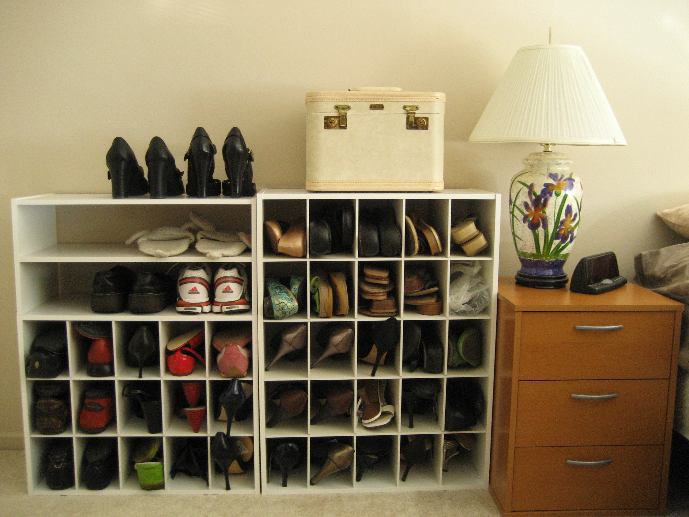 A few shelves make a world of difference!